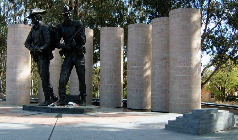 The Australian Army Memorial is on ANZAC Parade, the principal ceremonial and memorial avenue in Canberra, the national capital city of Australia. Stylistically, it is without doubt the least successful of the many, mundane memorials lining Anzac parade.